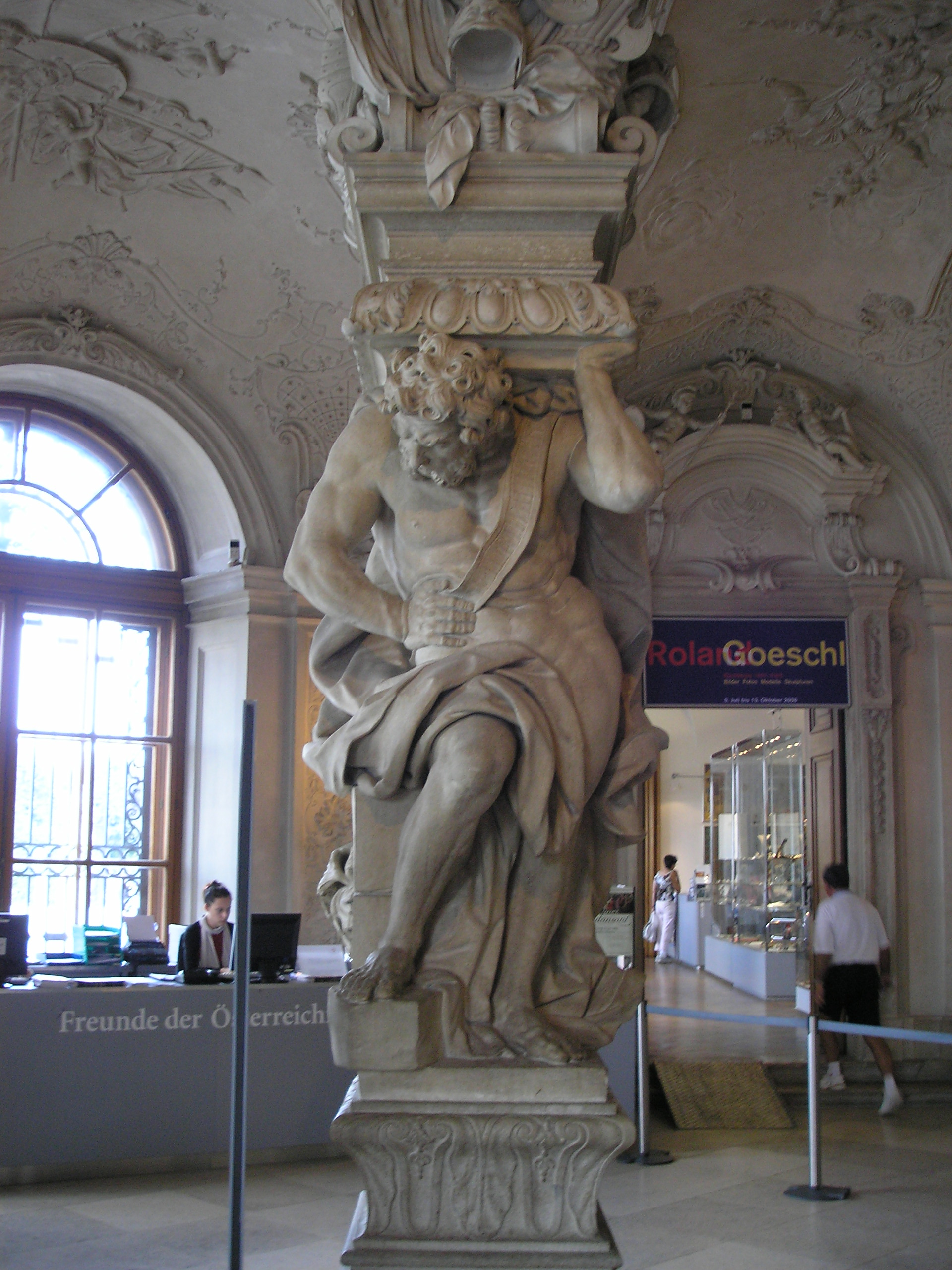 Interior of Upper Belvedere palace in Vienna. Constructed in the baroque era for Prince Eugene of Savoy. This was his summer residence.